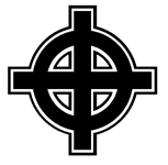 Celtic cross, used by Neo-Fascist groups.